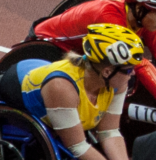 Gunilla Wallengren Paralympics 2012 - Women's 1500m - T54 (wheelchair racing).